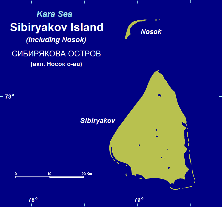 color map of an island